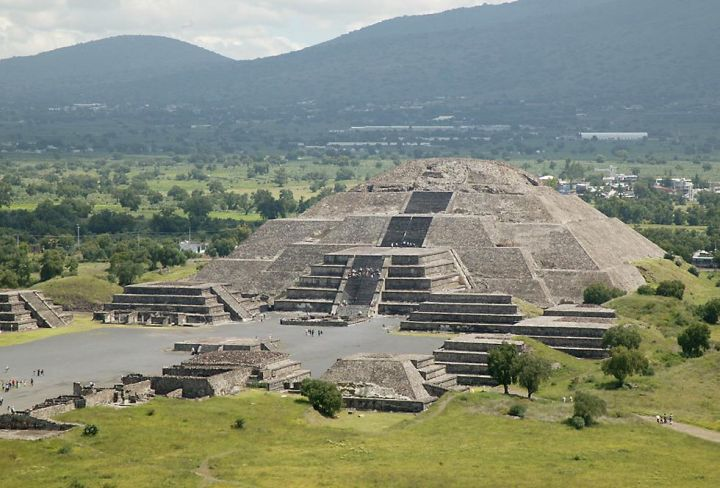 Pyramid of the Moon in Teotihuacan, Mexico.